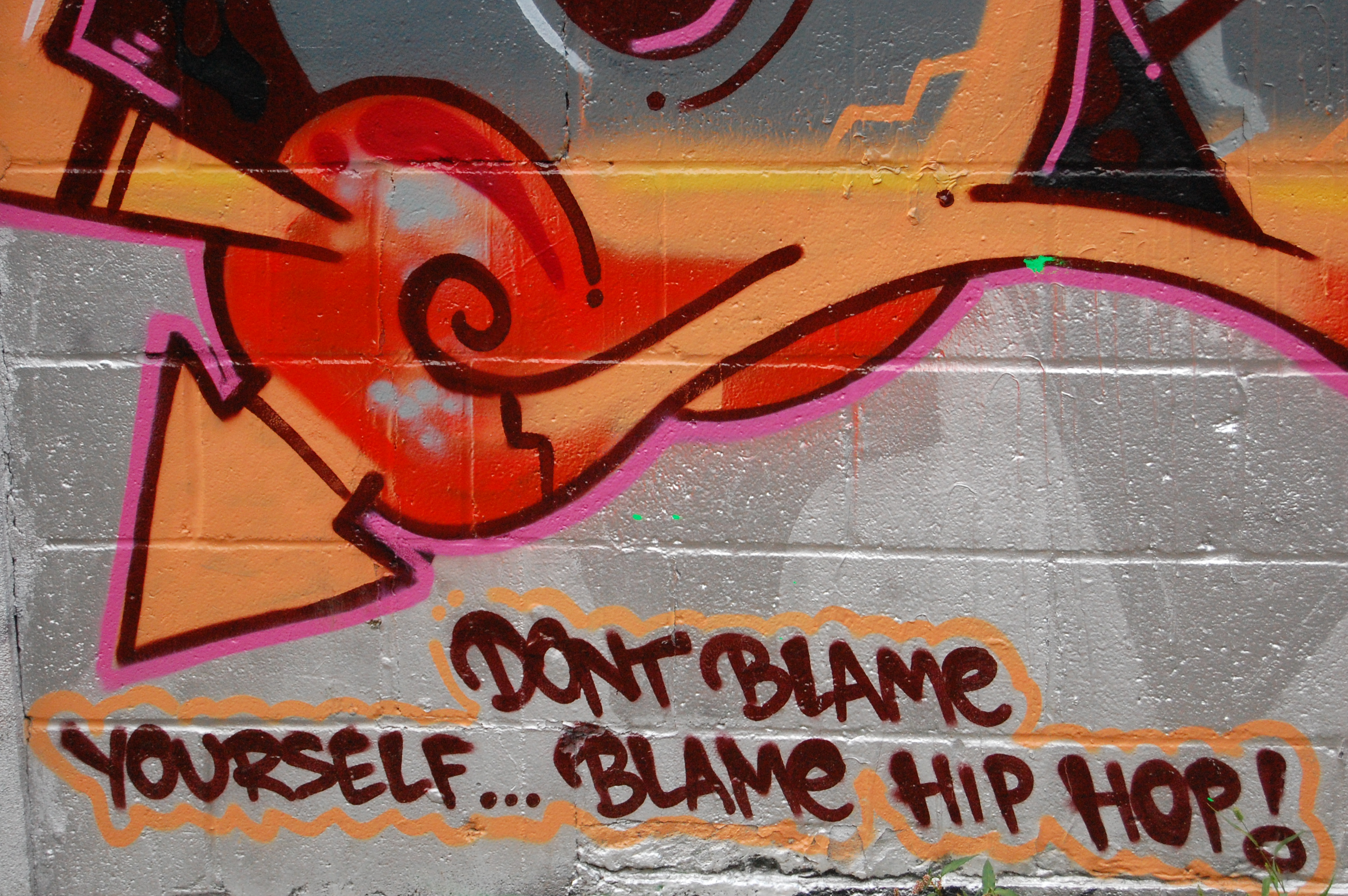 Grafitti with social statement